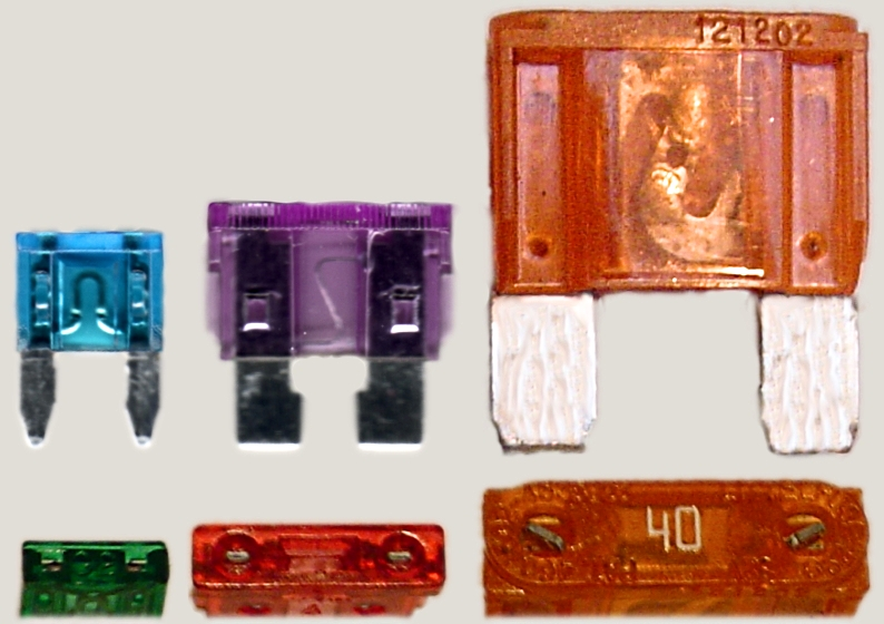 Picture of different physically sized electrical fuses, plug-in type. Edited in The Gimp (some parts of this image is scanned)